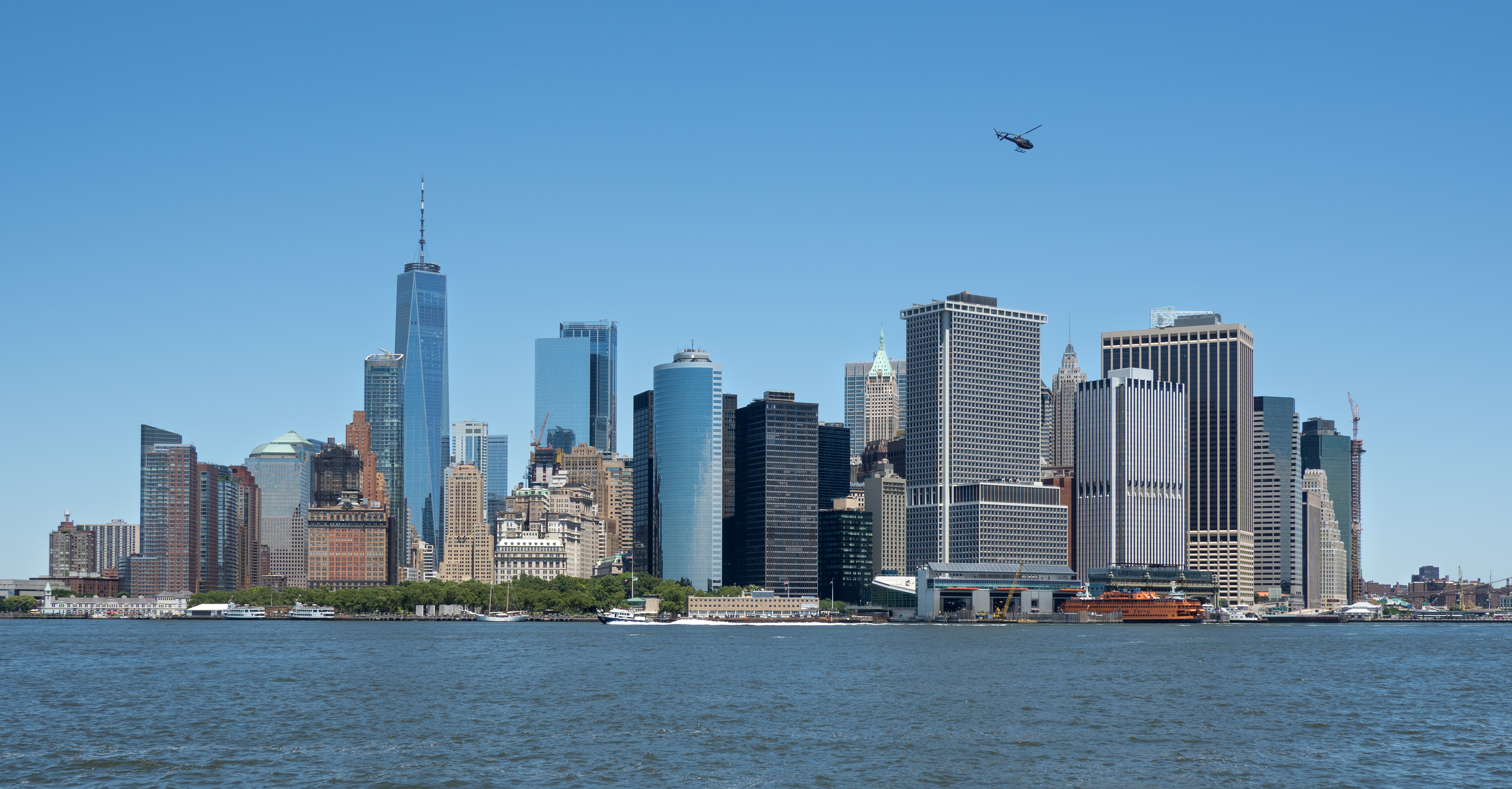 Lower Manhattan from Governors Island